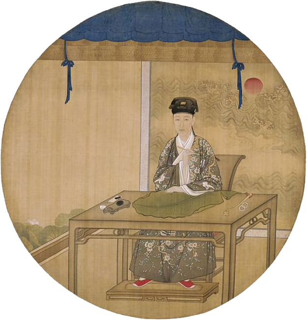 Prince Hongli Practising Calligraphy on a Banana Leaf, c.1730, by anonymous court artist. Hanging scroll, colour on silk. The Palace Museum, Beijing.